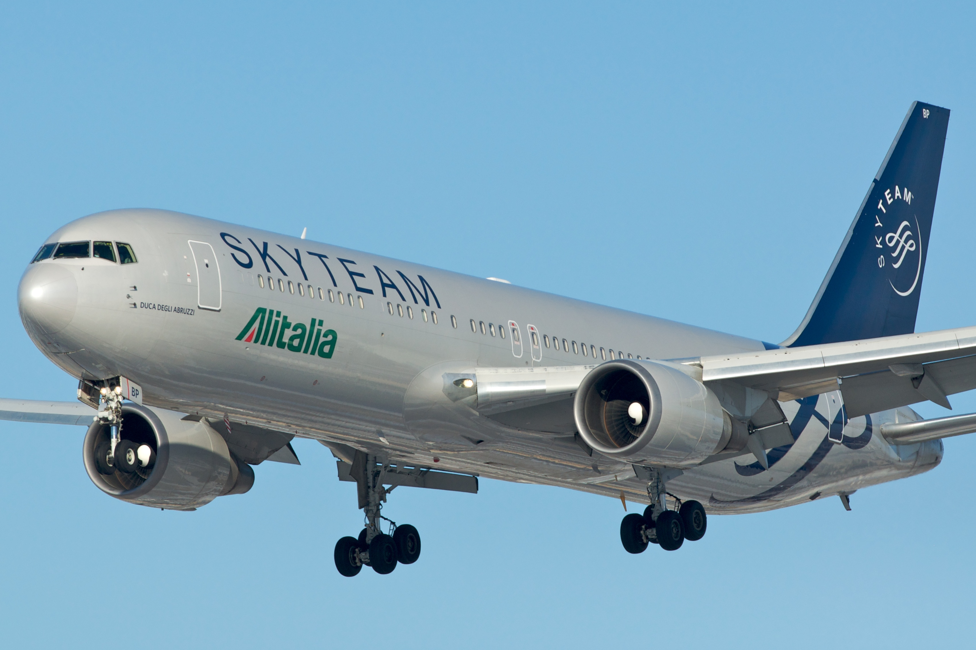 Alitalia Boeing 767-300ER EI-DBP in Skyteam livery